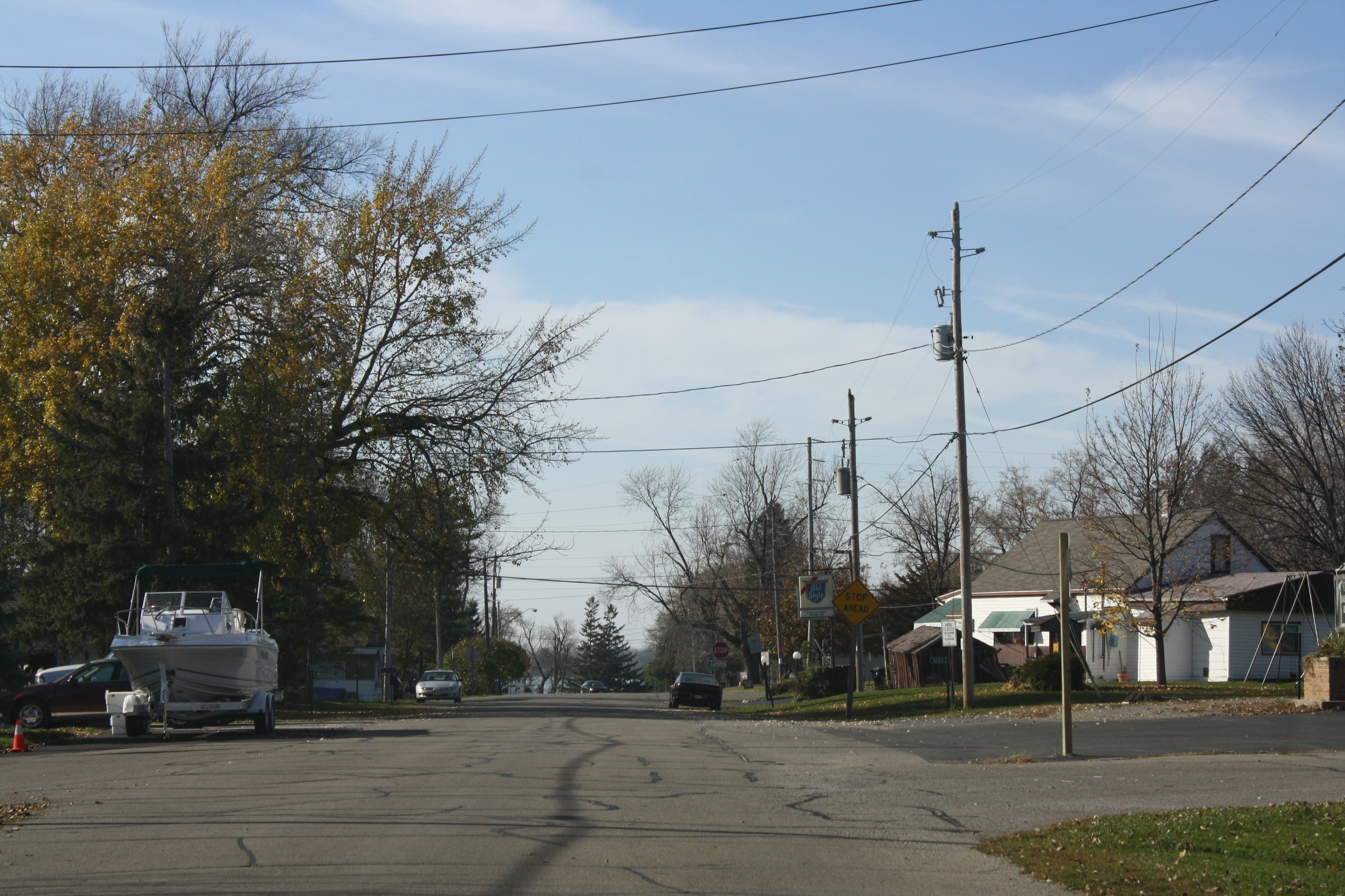 Looking west in downtown Butte des Mortes, Wisconsin.